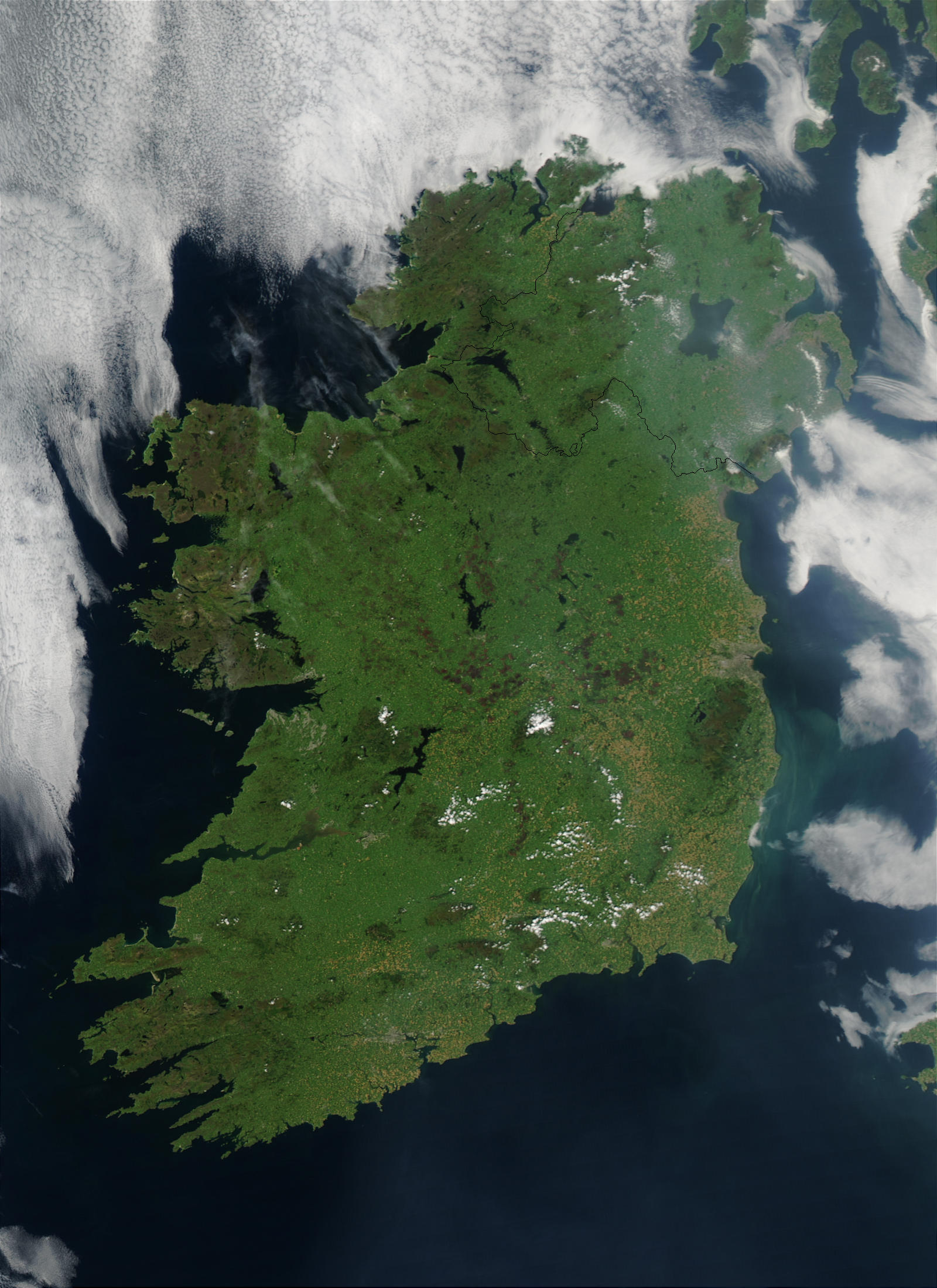 On August 7, 2003, the NASA Aqua MODIS instrument acquired this image of Ireland on the first day this summer that most of the island hasn´t been completely obscured by cloud cover. Called the Emerald Isle for a good reason, Ireland is draped in vibrant shades of green amidst the blue Atlantic Ocean and Celtic (south) and Irish (east) Seas. Faint ribbons of blue-green phytoplankton drift in the waters of the Celtic Sea, just south of Dublin. Dublin itself appears as a large grayish-brown spot on the Republic of Ireland´s northeastern coast. This large capital city (population 1.12 million) sits on the River Liffey, effectively splitting the city in half. Northern Ireland´s capital city, Belfast, also sits on a river: the River Lagan. This city, though its population is only a fifth of the size of Dublin´s, is also clearly visible in the image as a grayish-brown spot on the coast of the Irish Sea. Sensor Aqua/MODIS Credit Jeff Schmaltz, MODIS Rapid Response Team, NASA/GSFC For more information go to: NASA Goddard Space Flight Center is home to the nation's largest organization of combined scientists, engineers and technologists that build spacecraft, instruments and new technology to study the Earth, the sun, our solar system, and the universe. Follow us on Twitter Join us on Facebook